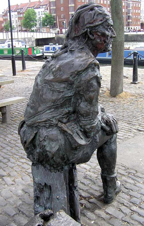 John Cabot gazes across Bristol Harbour. A bronze by Stephen Joyce, erected 1985.